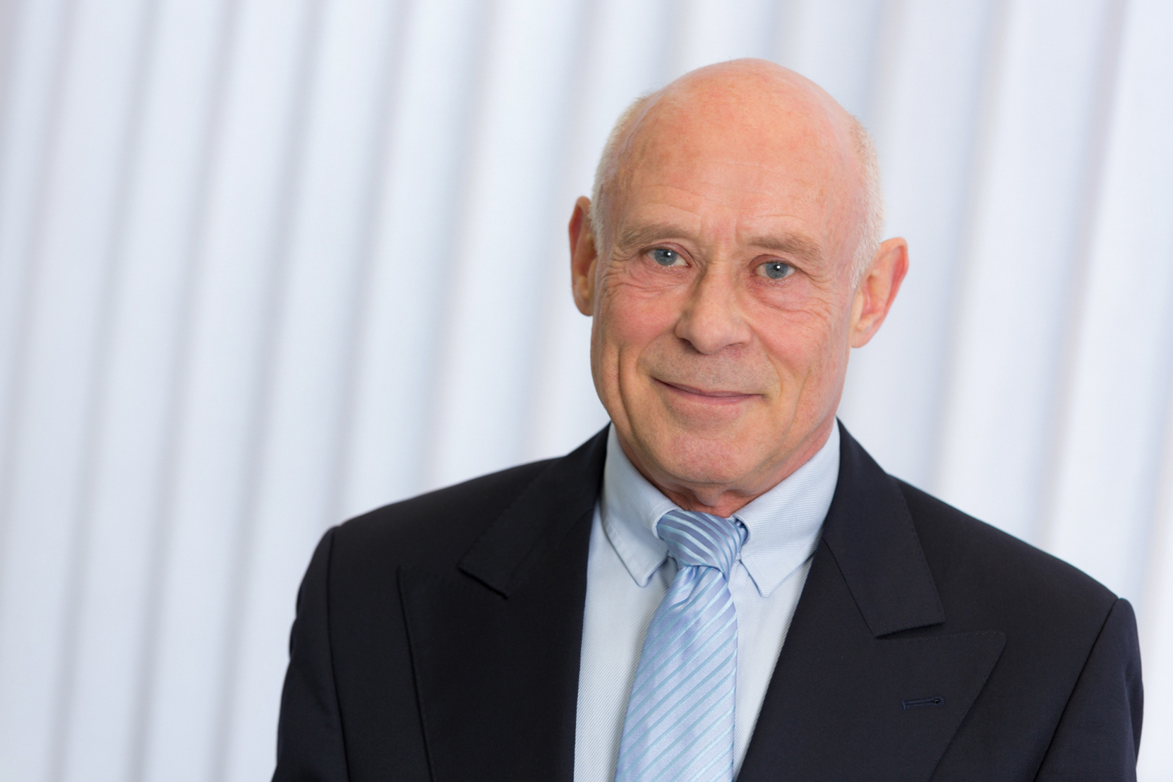 Foto of late Dr. Konrad Lammers, former academic director of the Europa-Kolleg, Hamburg, Institute for European Integration. The Europa-Kolleg Hamburg is an internationally recognised, interdisciplinary institution for education and research in the field of European integration. Аҧсшәа: Profilfoto des kürzlich verstorbenen akademischen Direktors des Europa-Kolleg, Hamburg, Dr. Konrad Lammers. Das Europa-Kolleg Hamburg ist eine international bedeutende Bildungs- und Forschungseinrichtung im Bereich der Integrationsforschung.